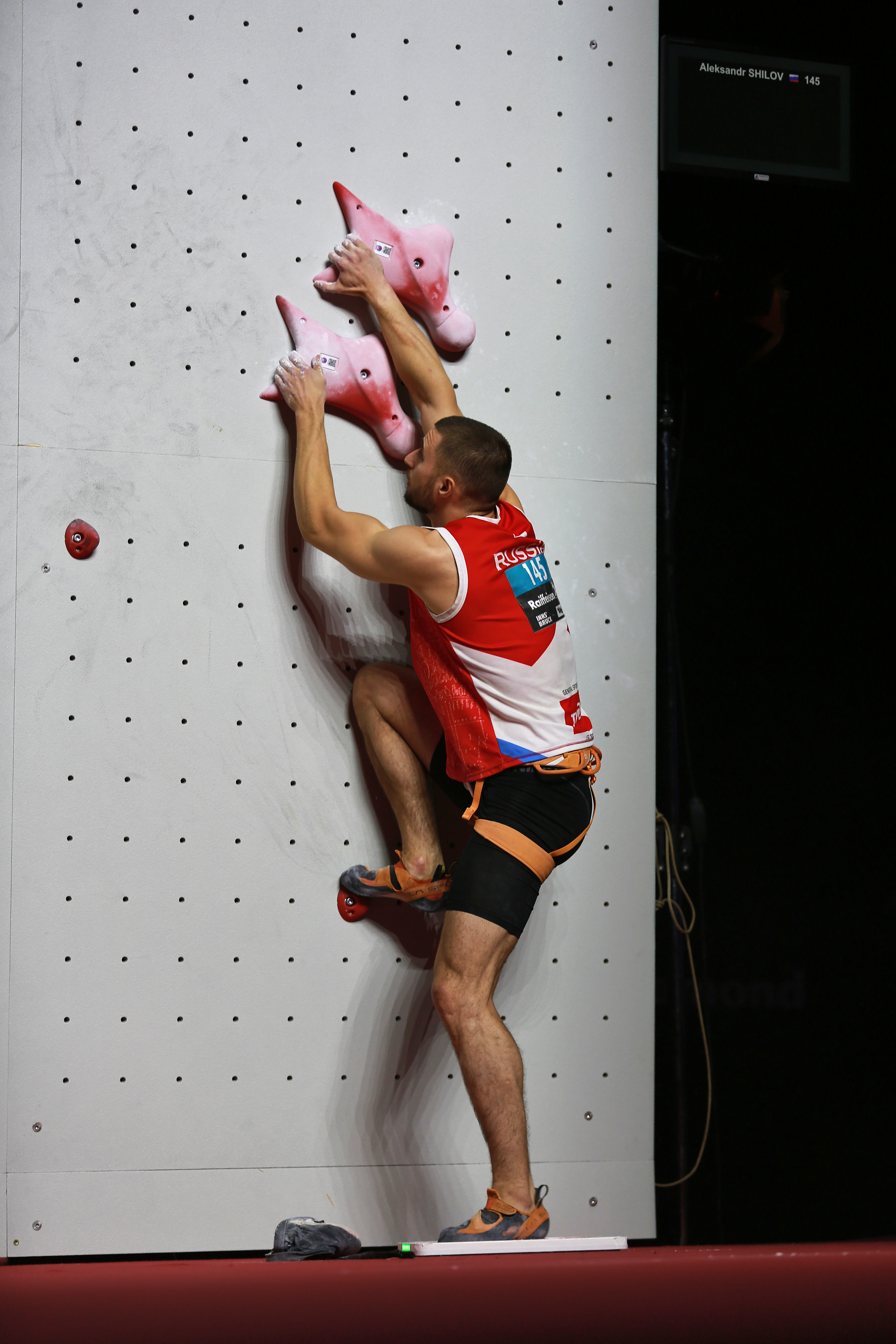 Climbing World Championships 2018 Speed Eighth-finals